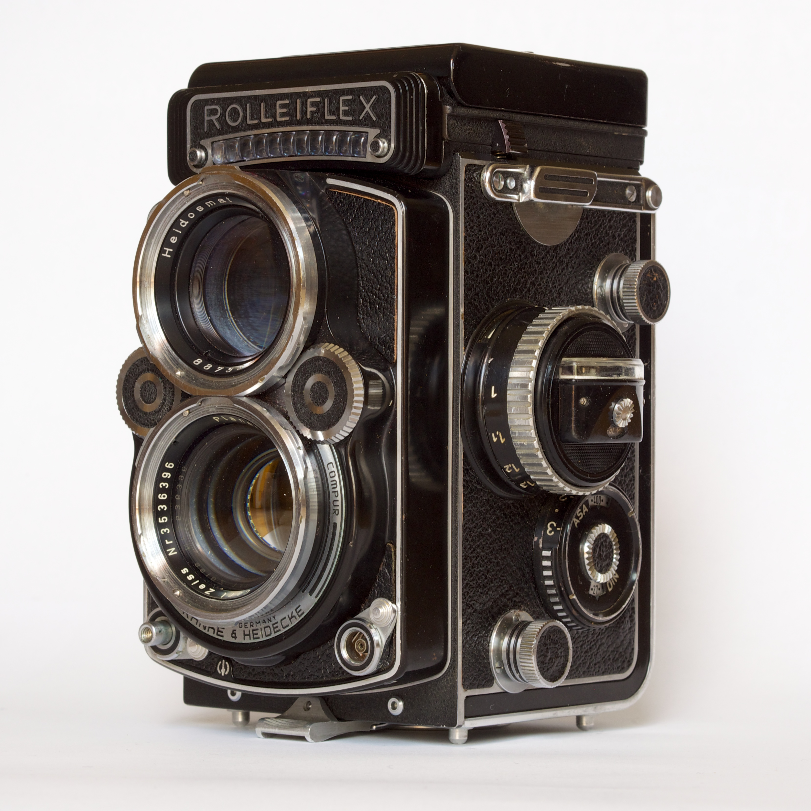 Rolleiflex 2.8 F medium format (6x6 cm) camera.